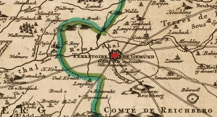 Territory of Gmünd (now Schwäbisch Gmünd) in the middle of the 18th century. Gmünd was a free imperial city up to 1802. Cropped from a map of the northern part of the Swabian Circle by Mortier, Delisle, published in 1742 in Amsterdam.